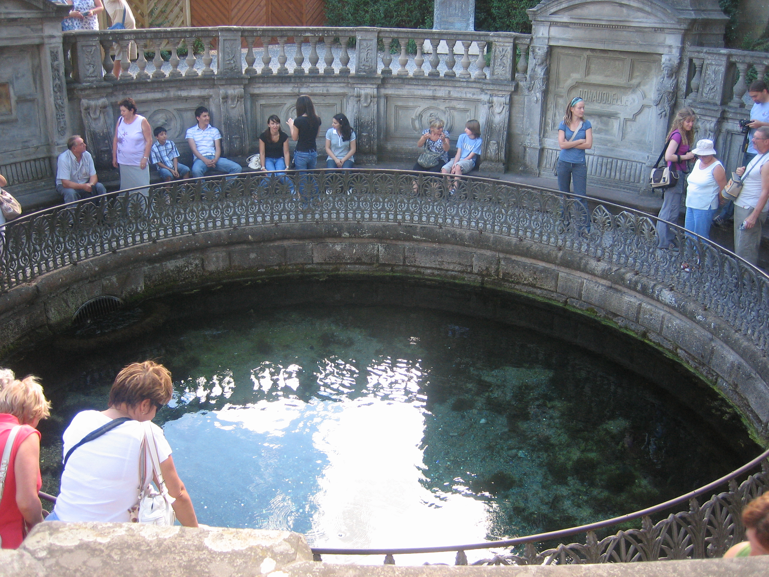 this is a picture of the source from where the Danube originates in Donaueschingen.